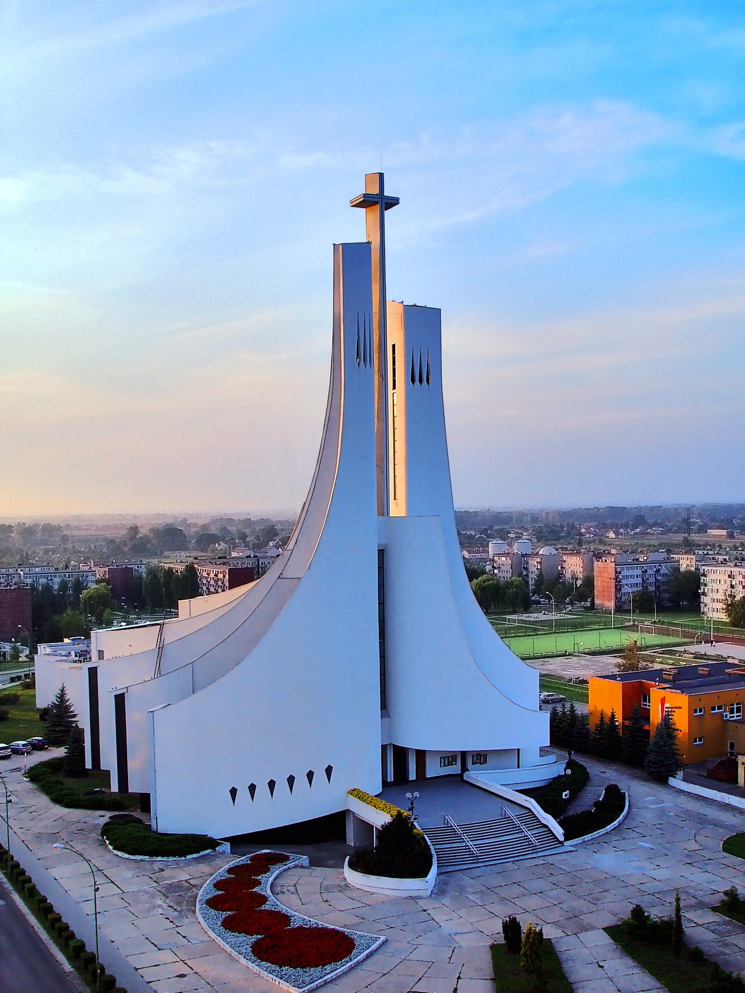 Holy Spirit's church in Mielec, Poland